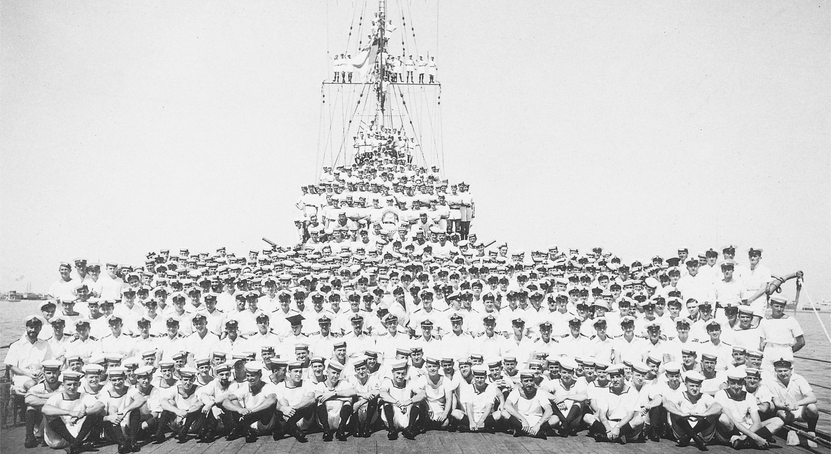 AWM caption: "Group portrait of the ships company of HMAS Sydney after the successful action against the Italian Cruiser Bartolomeo Colleoni on 19 July 1940. Men are crowded on the deck and stand in the rigging."